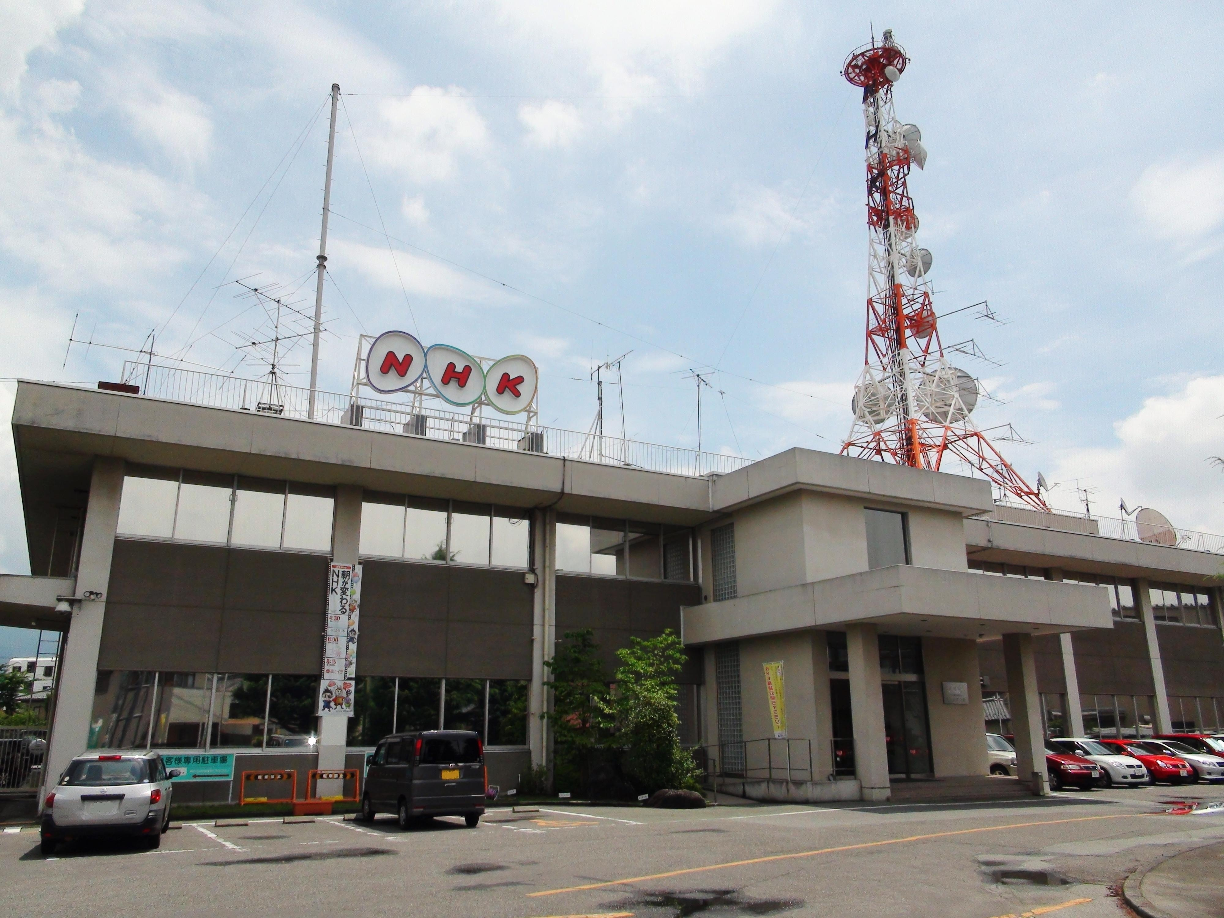 NHK Kofu JOKG The place of the 2010 point in time